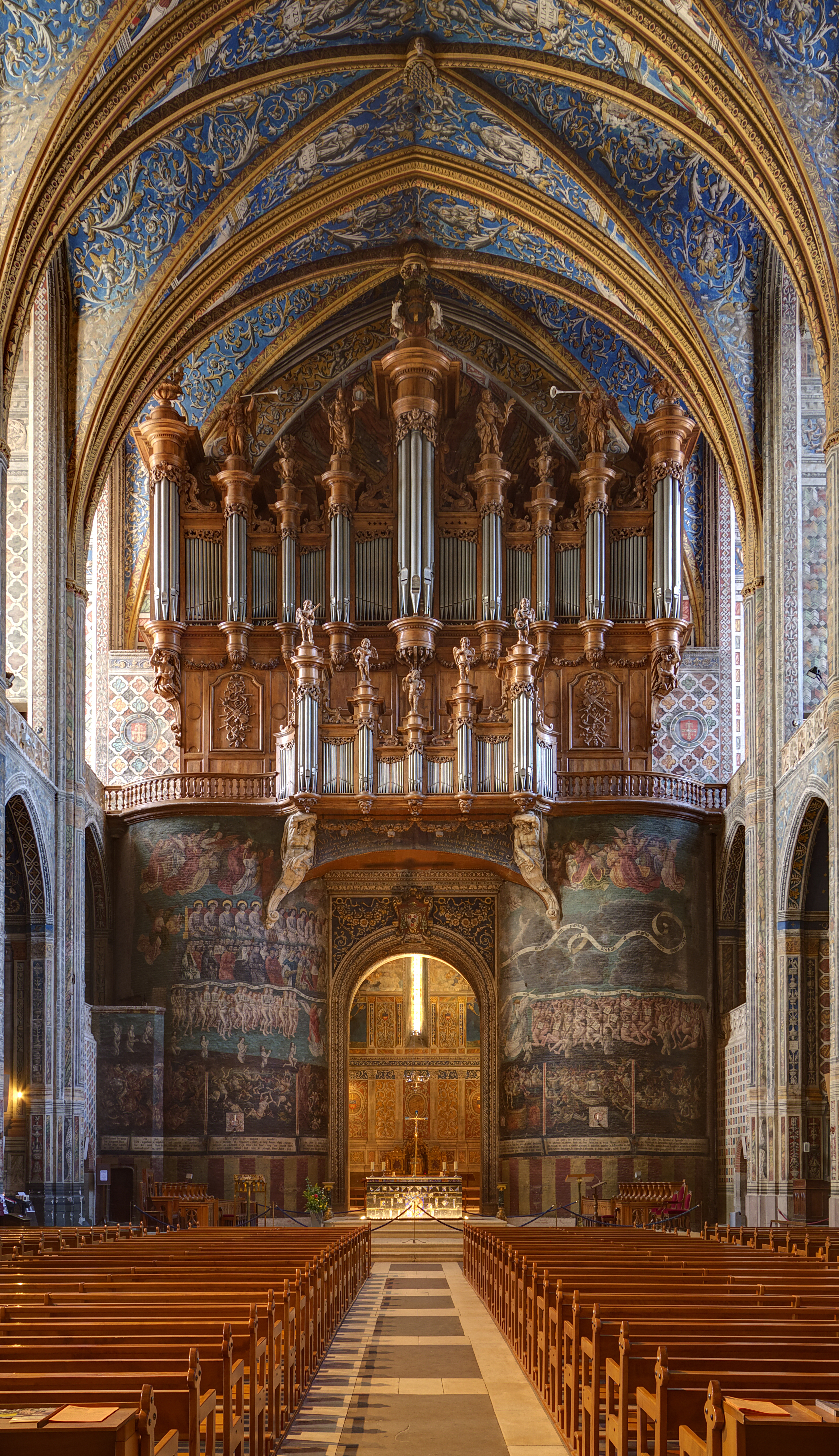 Nave and organ of the Cathedral of Albi in South of France.